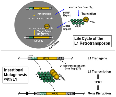 A graphic description of the L1 retrotransposon technology used to create knockout rat models.